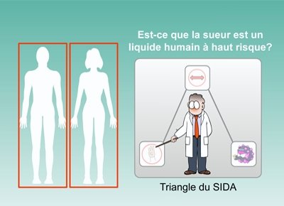 Photo credit: TeachAIDS